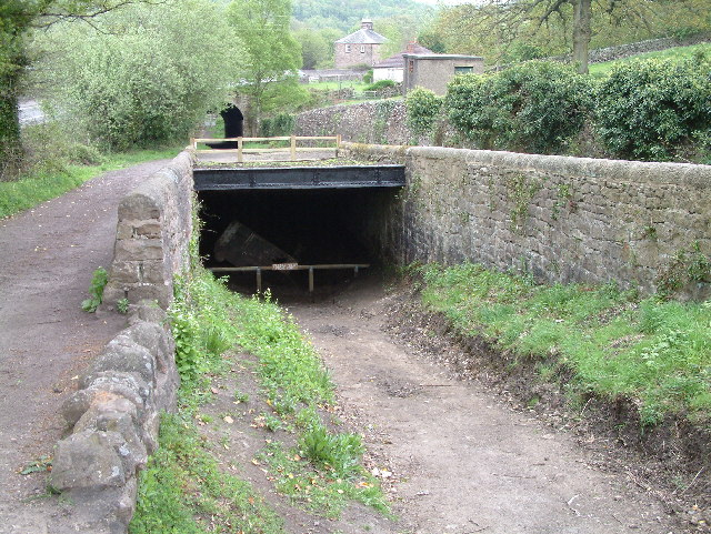 A catchpit on the High Peak Trail.